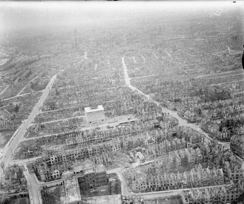 Royal Air Force Bomber Command, 1942-1945. Oblique aerial view of part of the devastated Walle district of Bremen, looking south-east towards the Altstadt. Note the large, undamaged, public air-raid shelter (Luftschutzbunker), standing on Zwinglistrasse in the foreground. Between the nights of 17/18 May 1940 and 22/23 April 1945, Bomber Command dropped over 12,800 tons of bombs on the city.